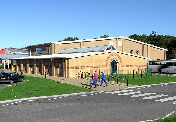 Part of Bradley Stoke Leisure Centre, Bradley Stoke, near Bristol, England.